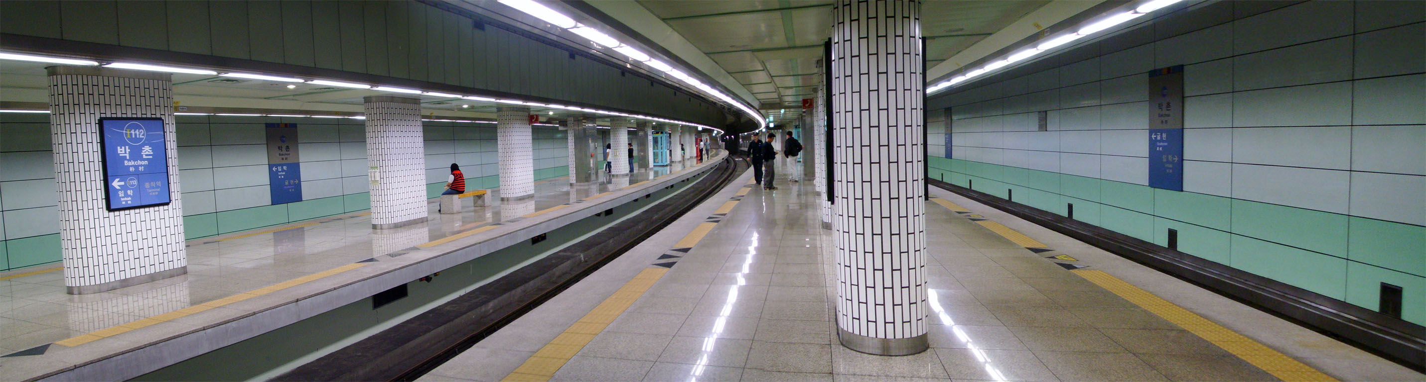 Incheon Subway Line 1 Bakchon Station